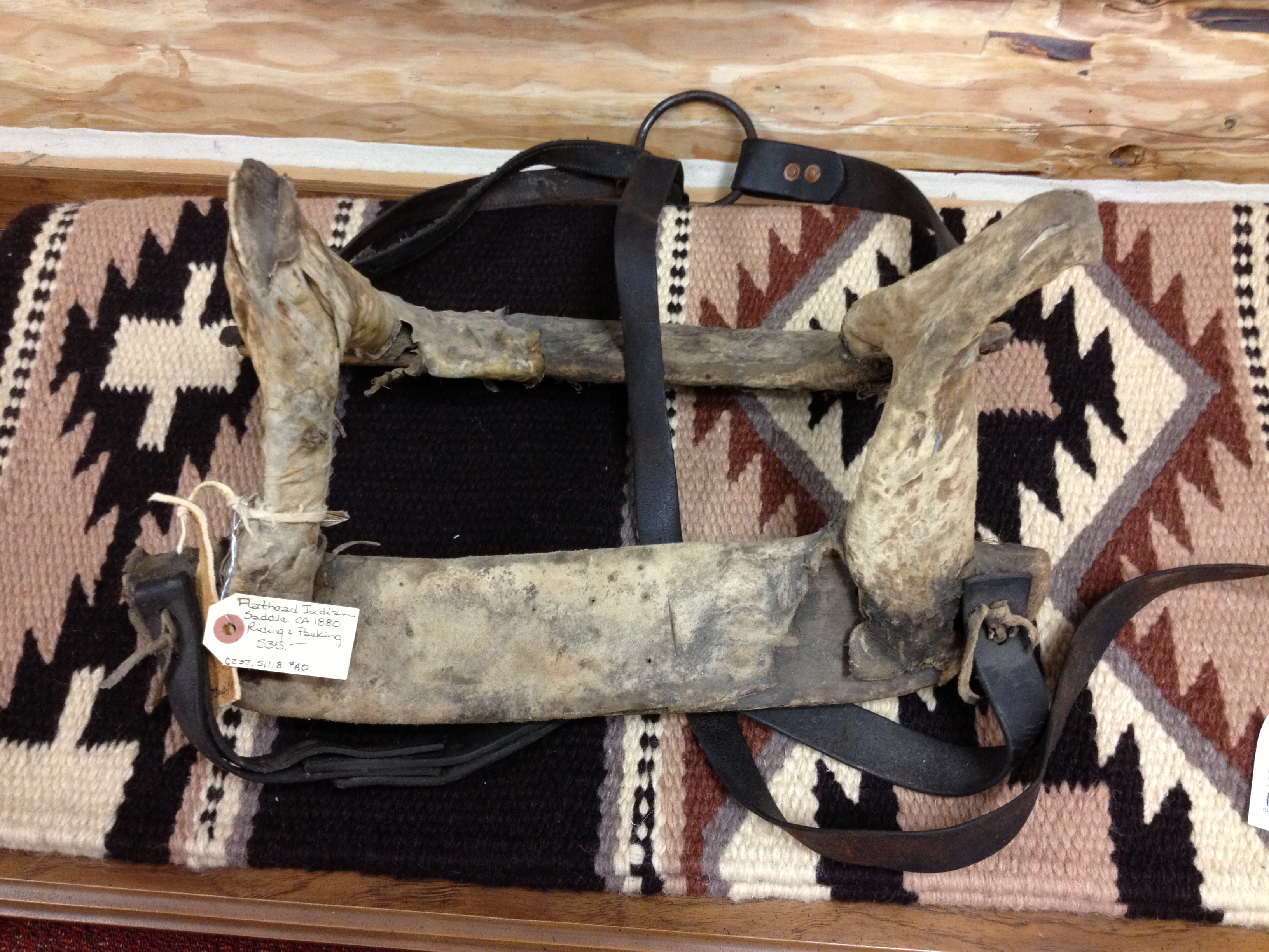 Traditional Flathead riding and packing saddle, ca. 1880, and saddle blanket. Ninepipes Museum of Early Montana, Charlo, MT. Photo of item in museum shop.